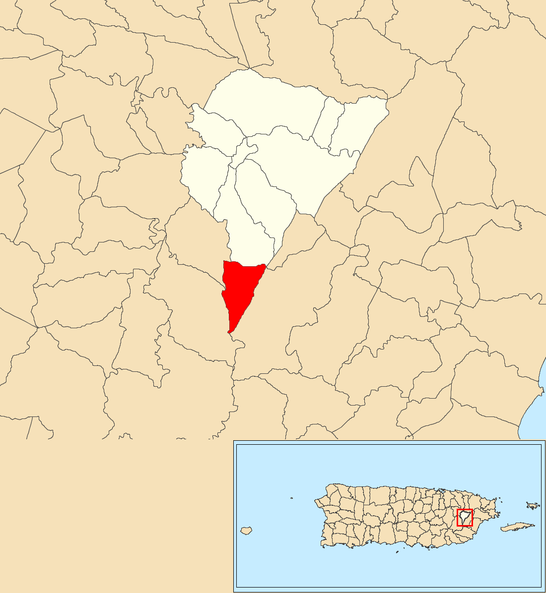 Valenciano Arriba, Juncos, Puerto Rico locator map